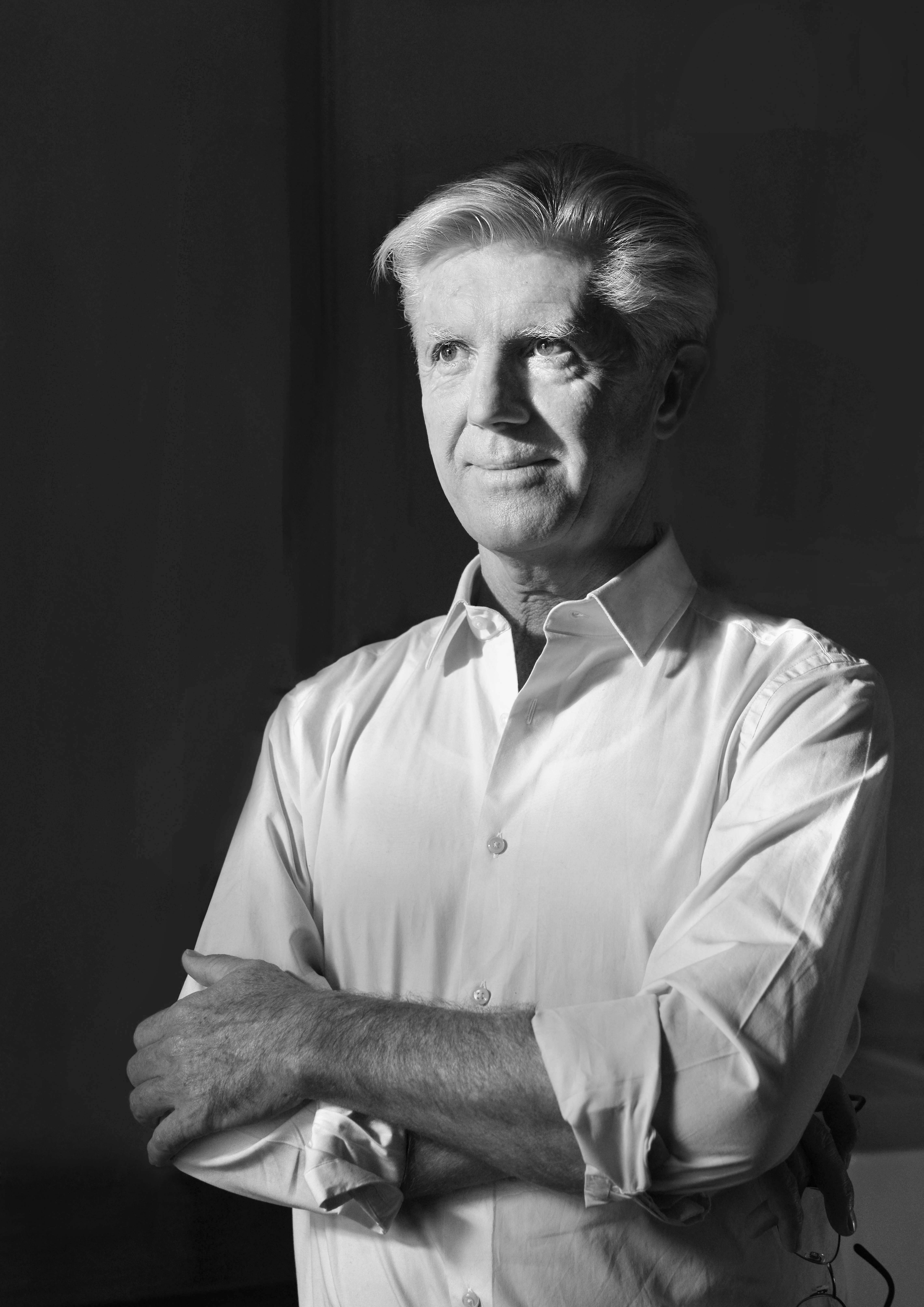 black White Portrait Franz Blumauer